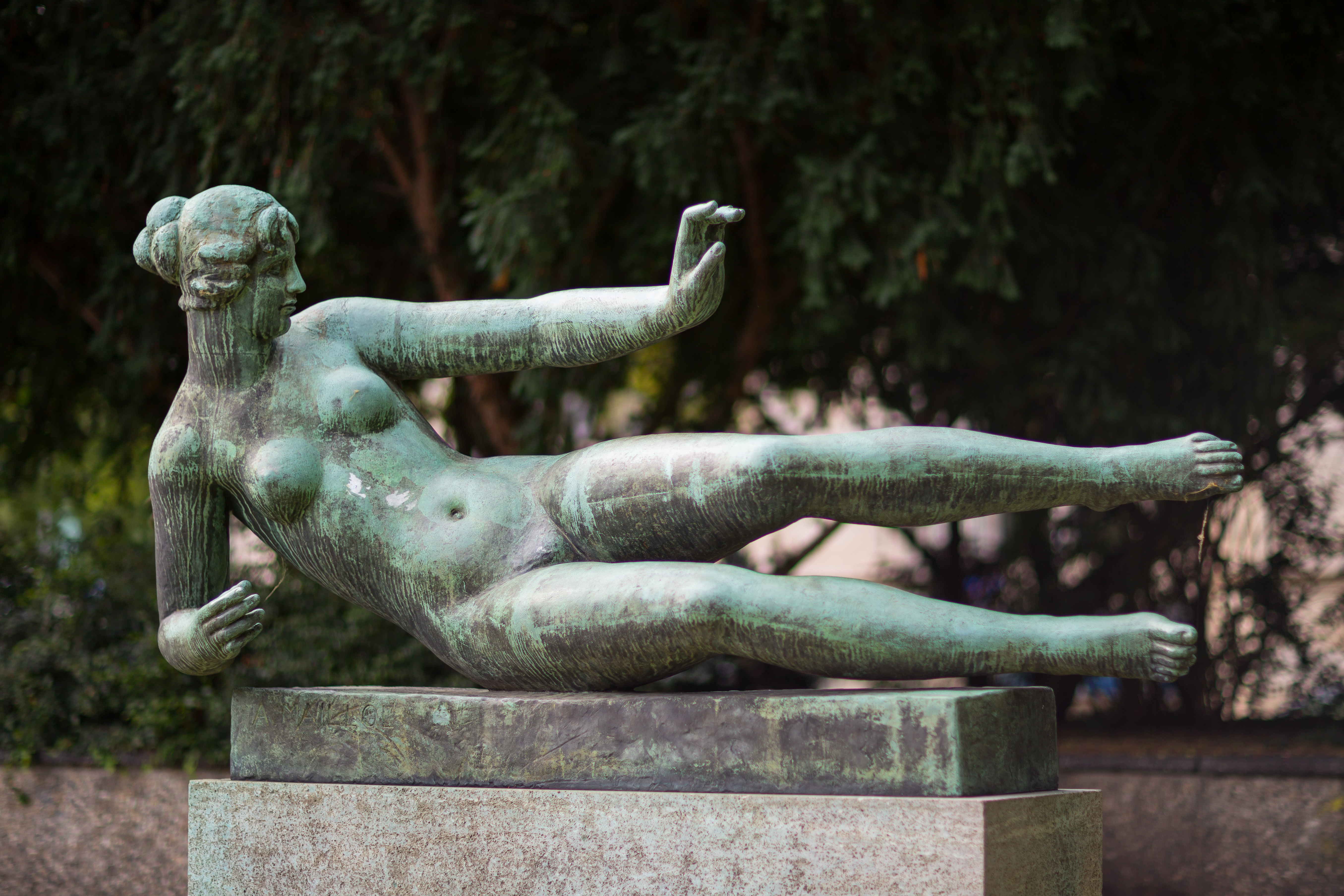 Sculpture "L'Air" by Aristide Maillol located at Georgsplatz square in Hanover, Germany.